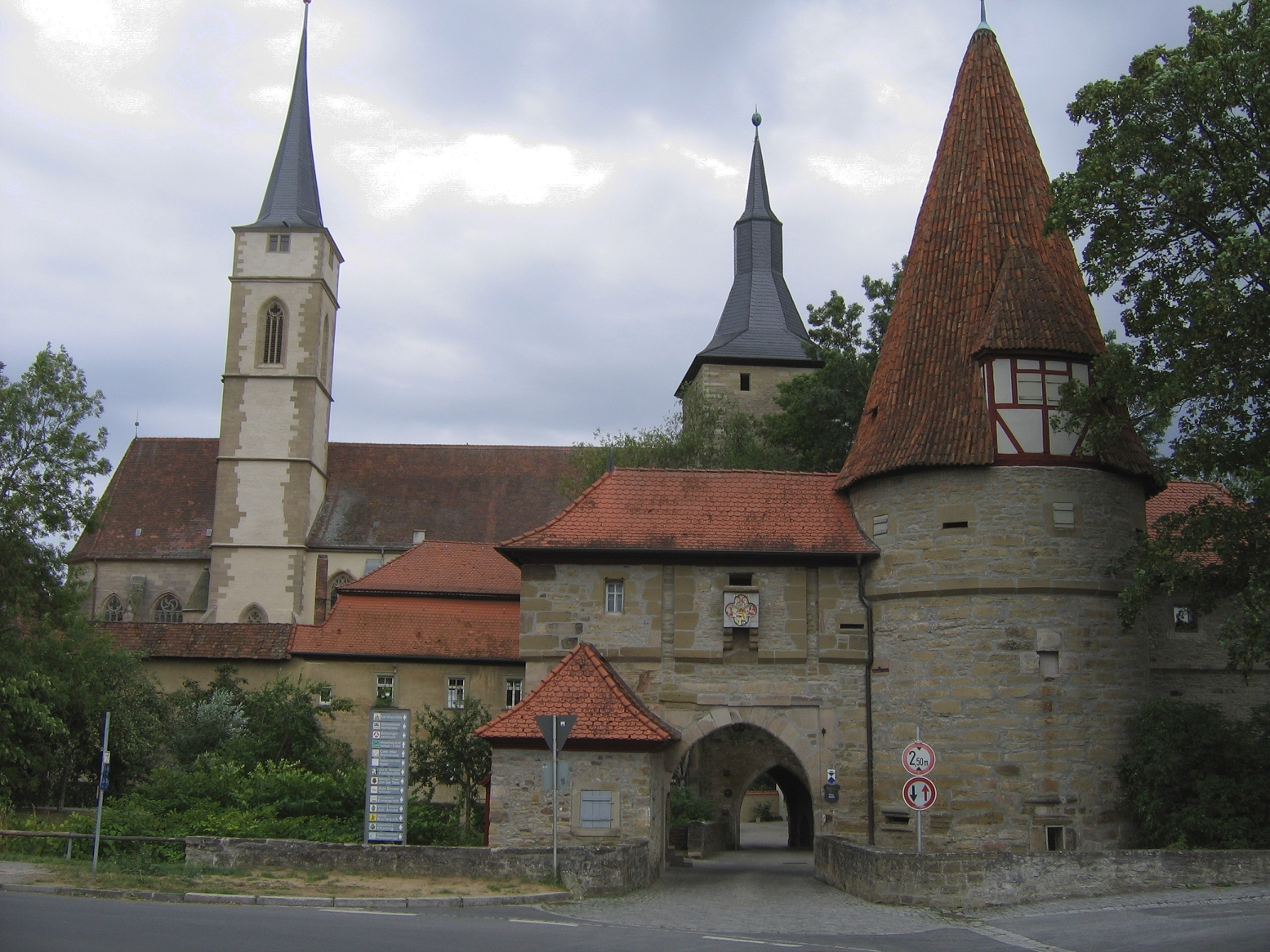 Iphofen, Bavaria, Germany, Rödelseer Tor and tower of St. Veit church